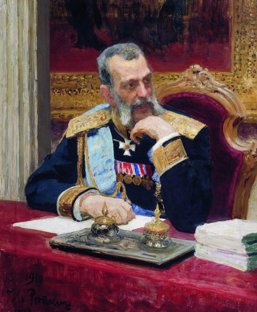 Portrait of infantry general, adjutant general, member of State Council, Commander in Chief of the guard troops of the military conscription of St. Petersburg and president of the Imperial Academy of the Arts Grand Prince Vladimir Aleksandrovich Romanov. Study for the picture Formal Session of the State Council. Oil on canvas. 111 × 90 cm. National Art Museum of Georgia, Tbilisi.